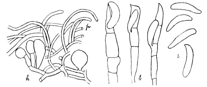 Illustration to the original description of Septobasidium pseudopedicellatum. “S. pseudopedicellatum h, portion of hymenium showing the longitudinally interwoven hyphal ends or paraphyses and some probasidia; b, three spore-bearing organs; s, spores. × 640”